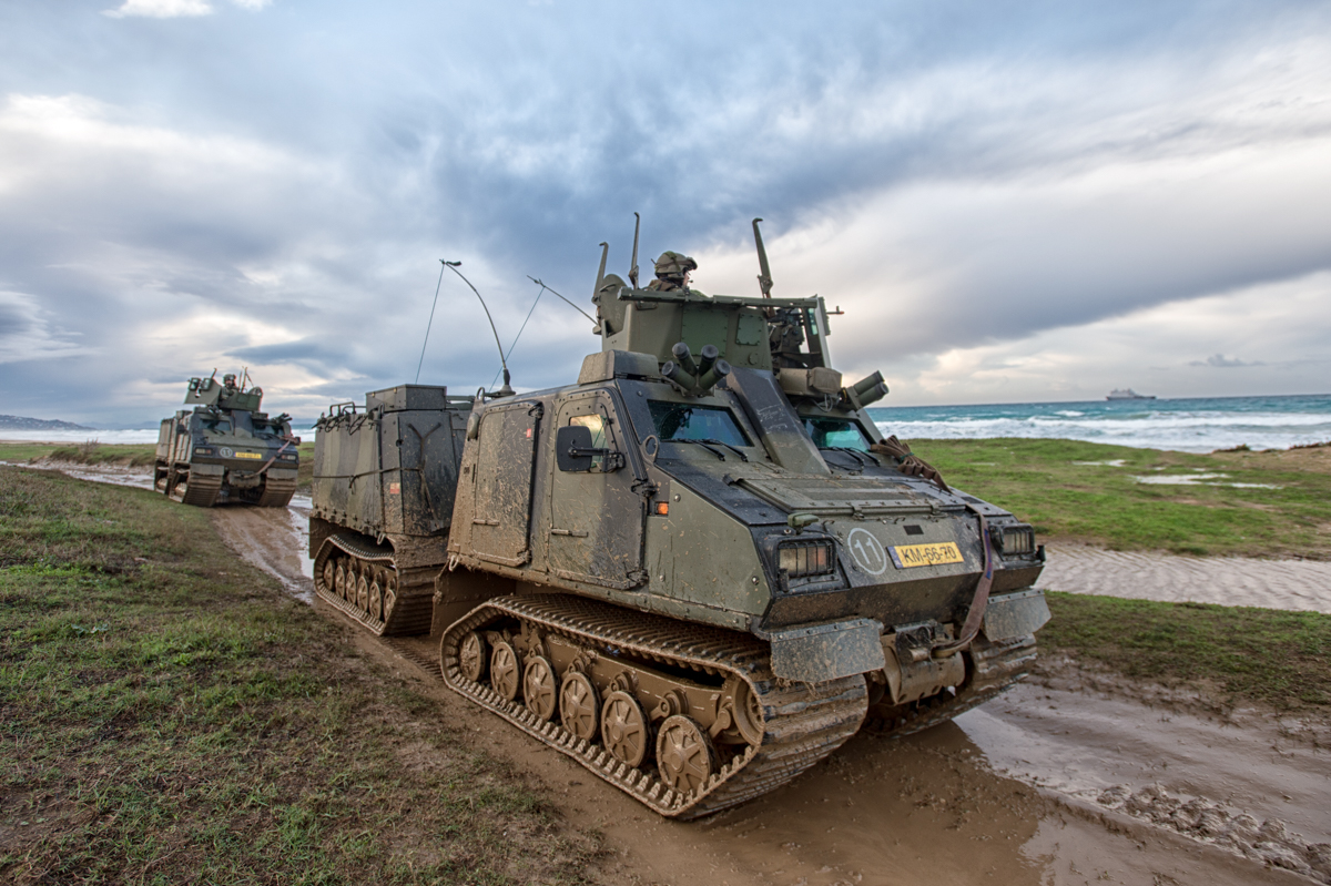 TRIDENT JUNCTURE Exercise-TJ15-Sierra del Retin-2nd Marine Infantry Battalions Amphibious assault - 02 NOV 2015 - Photo by WO ARTIGUES (HQ MARCOM). Exercise Trident Juncture 2015 will be held through October and November, predominantly in, over and on the seas around Portugal, Spain and Italy. It is one of a series of long-planned exercises to ensure that NATO Allies are ready to deal with any emerging crisis, from any direction, and that they are able to work effectively with partners in tackling any crisis. Over 36,000 personnel from 30 nations will take part – that includes NATO Allies as well as seven partner nations (Australia, Austria, Bosnia and Herzegovina, Finland, the former Yugoslav Republic of Macedonia, Sweden and Ukraine).